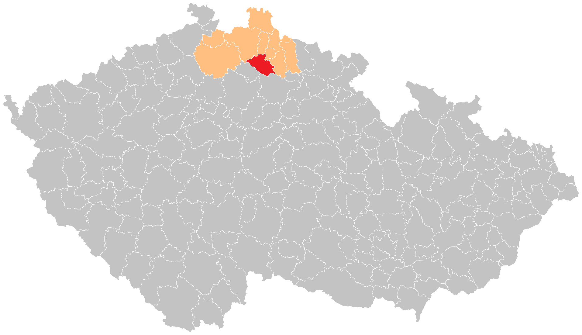 Locator map of district of municipality with extended powers of Turnov